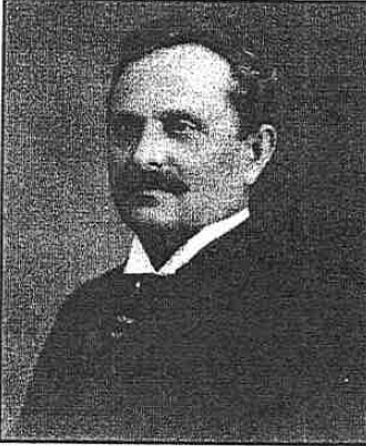 Portrait of the Romanian politician Ioan Păcurariu, deputy in the Great National Assembly from Alba Iulia - Romania, 1918Română: Portretul lui Ioan Păcurariu, deputat în Marea Adunare Națională de la Alba Iulia, 1918